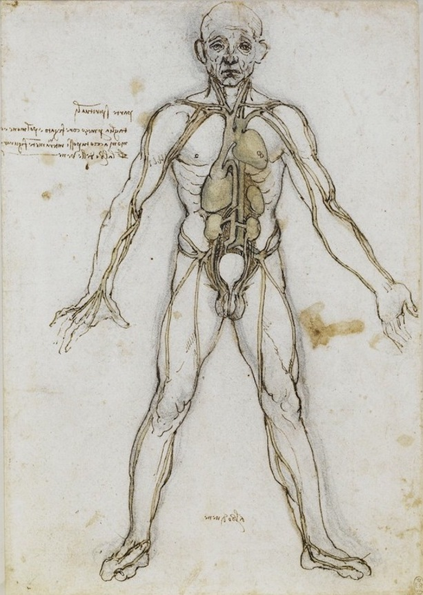 Anatomical Male Figure Showing Heart, Lungs, and Main Arteries